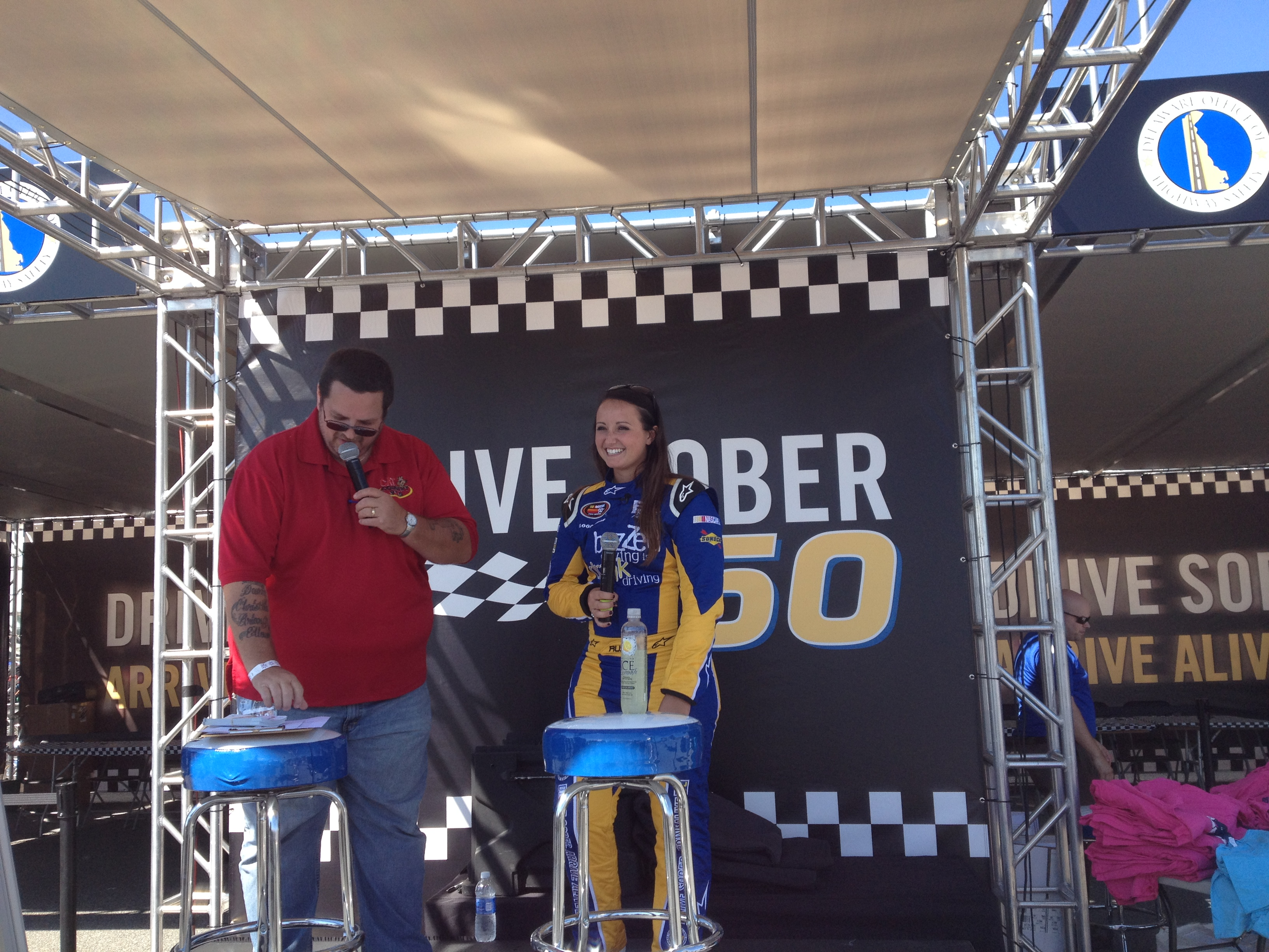 Kenzie Ruston (right), driver of the #96 for Ben Kennedy Racing in the NASCAR K&N Pro Series East, at a Q&A session at Dover International Speedway.